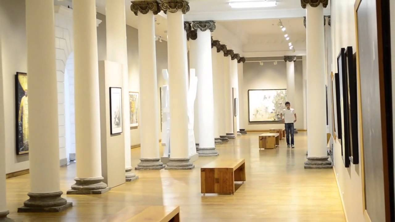 Interior del MUSA